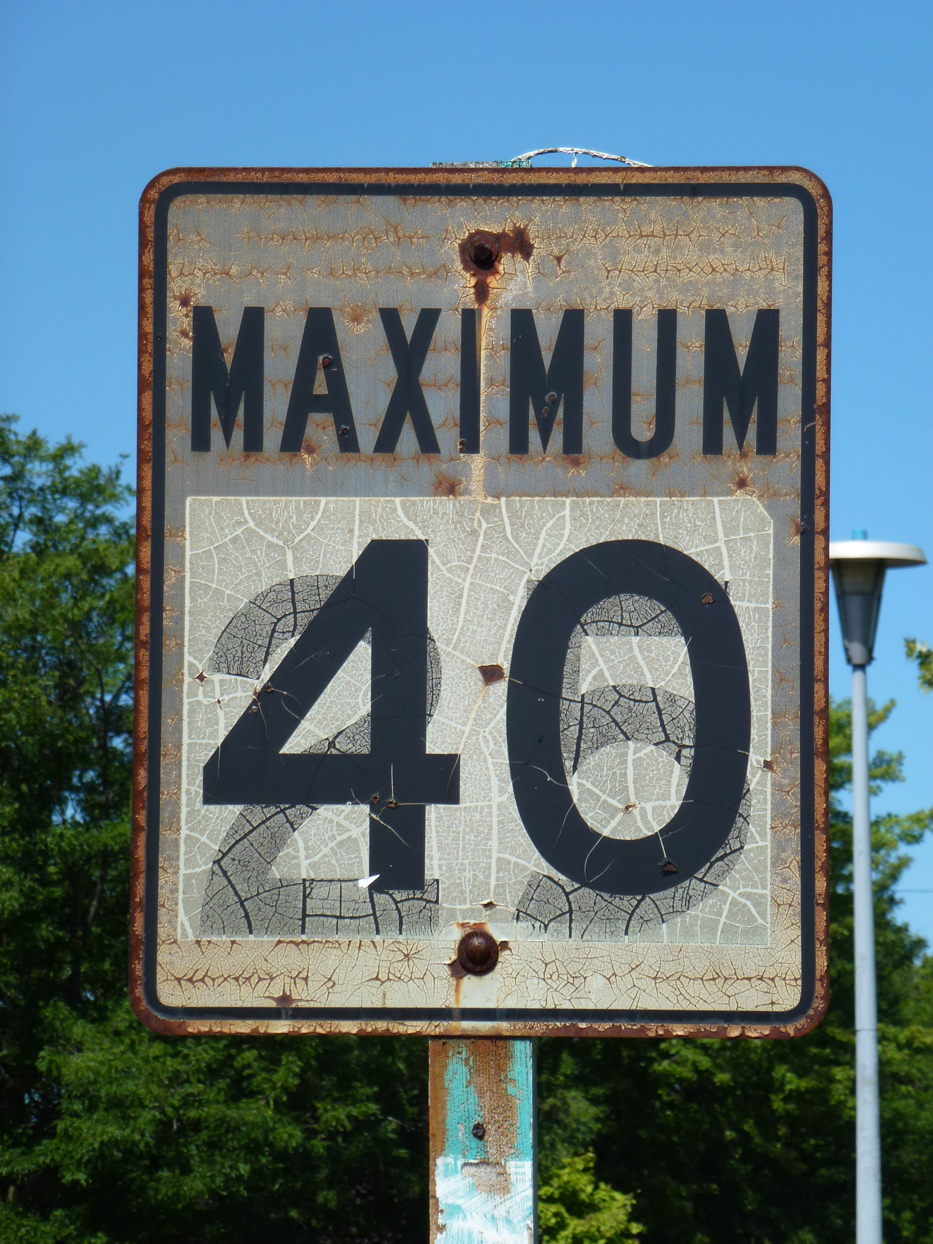 A speed-limit sign on a residential street in Bolton, Ontario that was metricated in 1977 and whose worn conversion sticker now has the old 25-miles-per-hour value showing through the newer 40 km/h one.